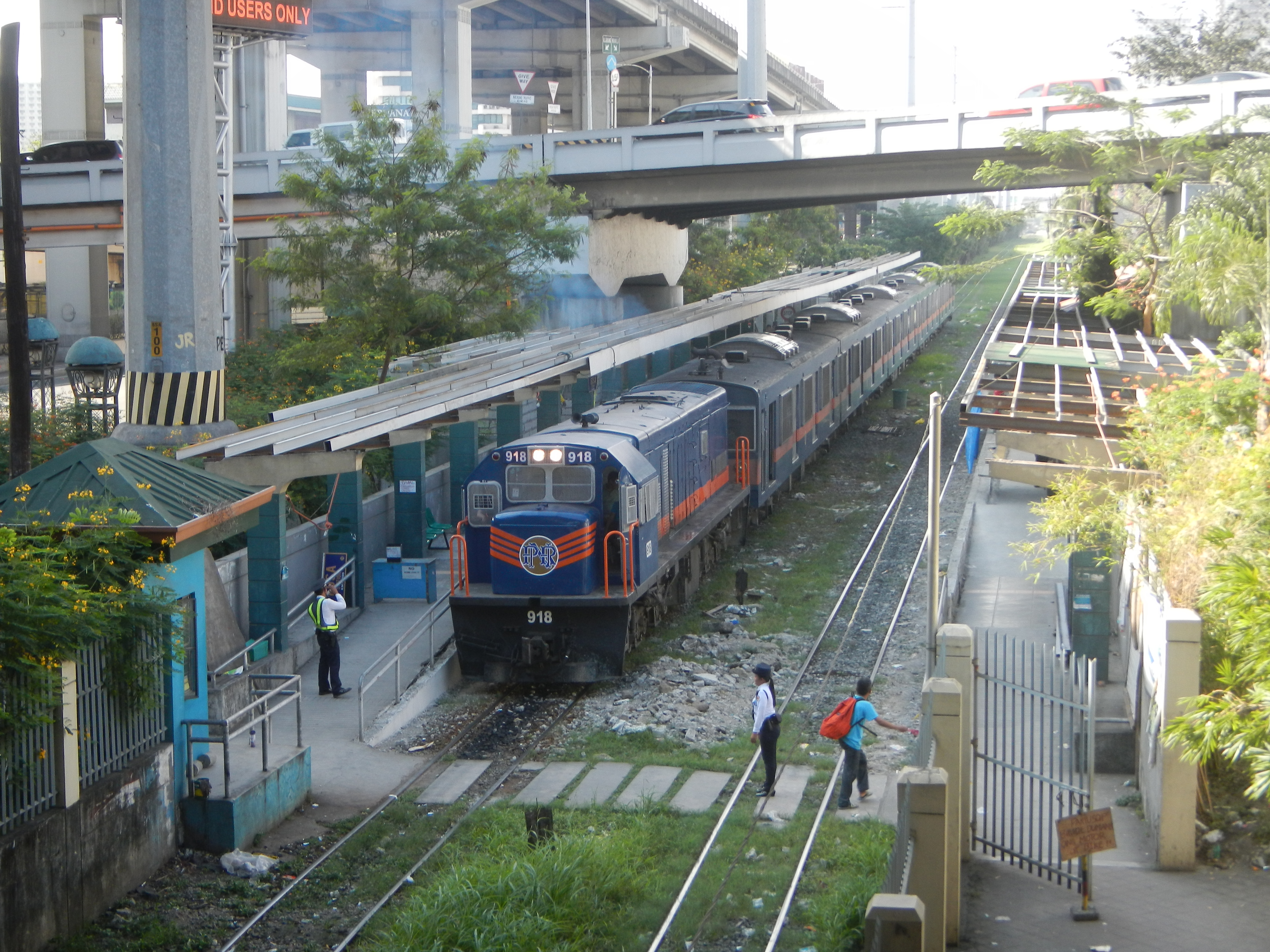 San Lorenzo Place Empire East Empire East Land Holdings, Inc. - Megaworld Central Properties, Inc. San Lorenzo Place 14°32'32"N 121 1'6"E Wilcon IT Hub (Makati) 14°32'34"N 121°1'5"E Wilcon Depot (Makati) 14°32'34"N 121°1'5"E Makati Makati Central Business occupies List of barangays of Metro Manila, Legislative districts of Makati Barangays San Lorenzo 14°33'4"N 121°1'13"E San Lorenzo Village, Makati City San Lorenzo 14°33'4"N 121°1'13"E beside Magallanes 14°32'8"N 121°1'6"E Bangkal 14°32'37"N 121°0'48"E Makati City Chino Roces Avenue Pasong Tamo Box Culvert KM Sta.6+542 15 metric tons load limit along Chino Roces Avenue (Pasong Tamo), Bangkal, Makati City EDSA-Magallanes Tunnel P 12.0 million cost Rehabilitation from Magallanes Interchange EDSA railway station Magallanes MRT Station to Pasong Tamo Extension, Makati City corner South Luzon Expressway corner EDSA (road) Epifanio de los Santos Avenue (EDSA, Makati City - Pasay City section) Barangay 183 (Pasay) 14°30'57"N 121°0'58"E Metro Manila Skyway Mabuhay Pasay City Nichols Field Road Interchange Bridge Sta. Limit -11+053 Load limit 20 metric tons and Sta. Limit -11+394 Load limit 20 metric tons Lawton Avenue Barangay Western Bicutan, Taguig City (Note: Judge Florentino Floro, the owner, to repeat, Donor Florentino Floro of all these photos hereby donate gratuitously, freely and unconditionally all these photos to and for Wikimedia Commons, exclusively, for public use of the public domain, and again without any condition whatsoever).